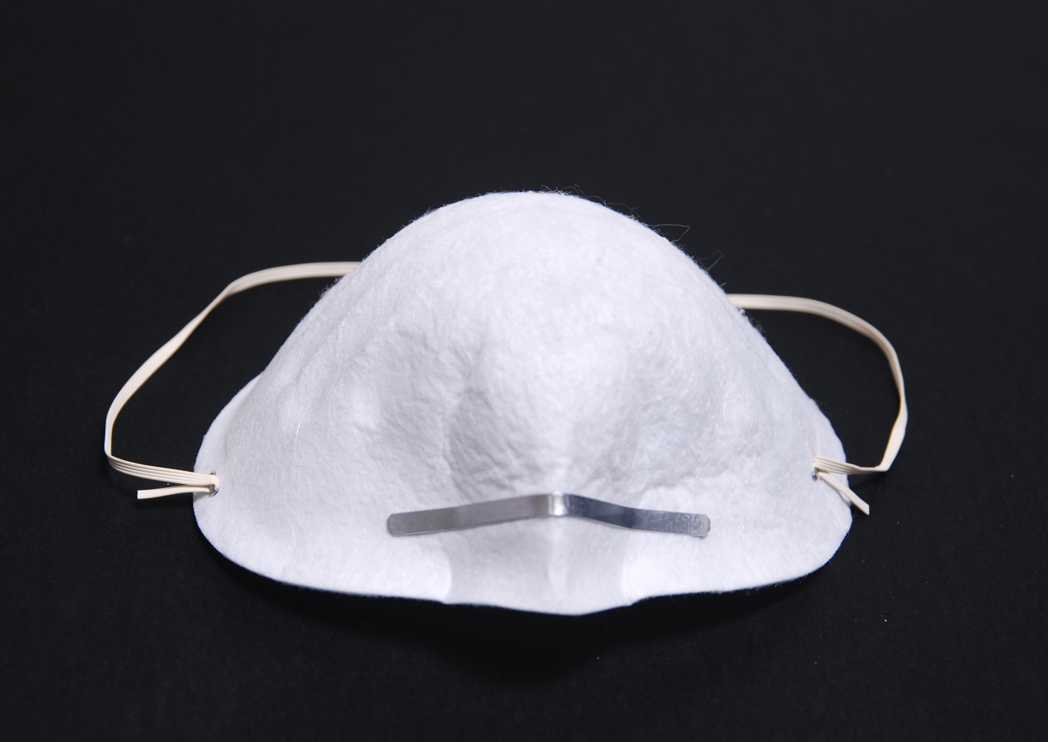 Protective mask a face